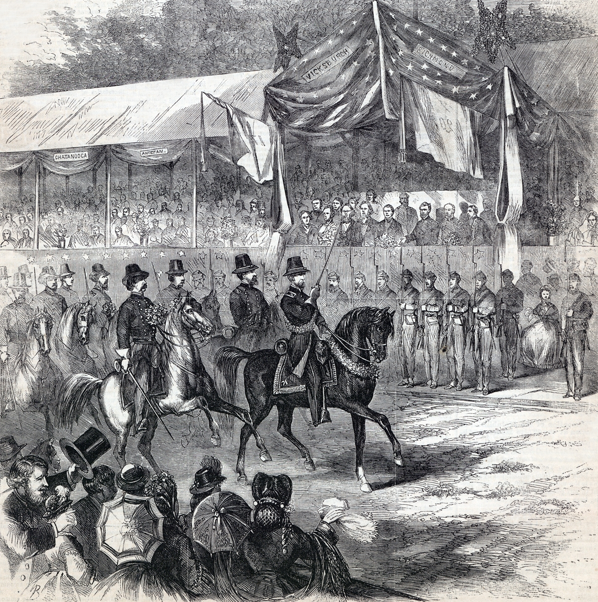 General W. T. Sherman leading his army at the Grand Review, Washington D.C., May 24, 1865. Published in Chronicles of the Great Rebellion Against the United States of America. Philadelphia, PA: A. Winch, 1867, p. 107.